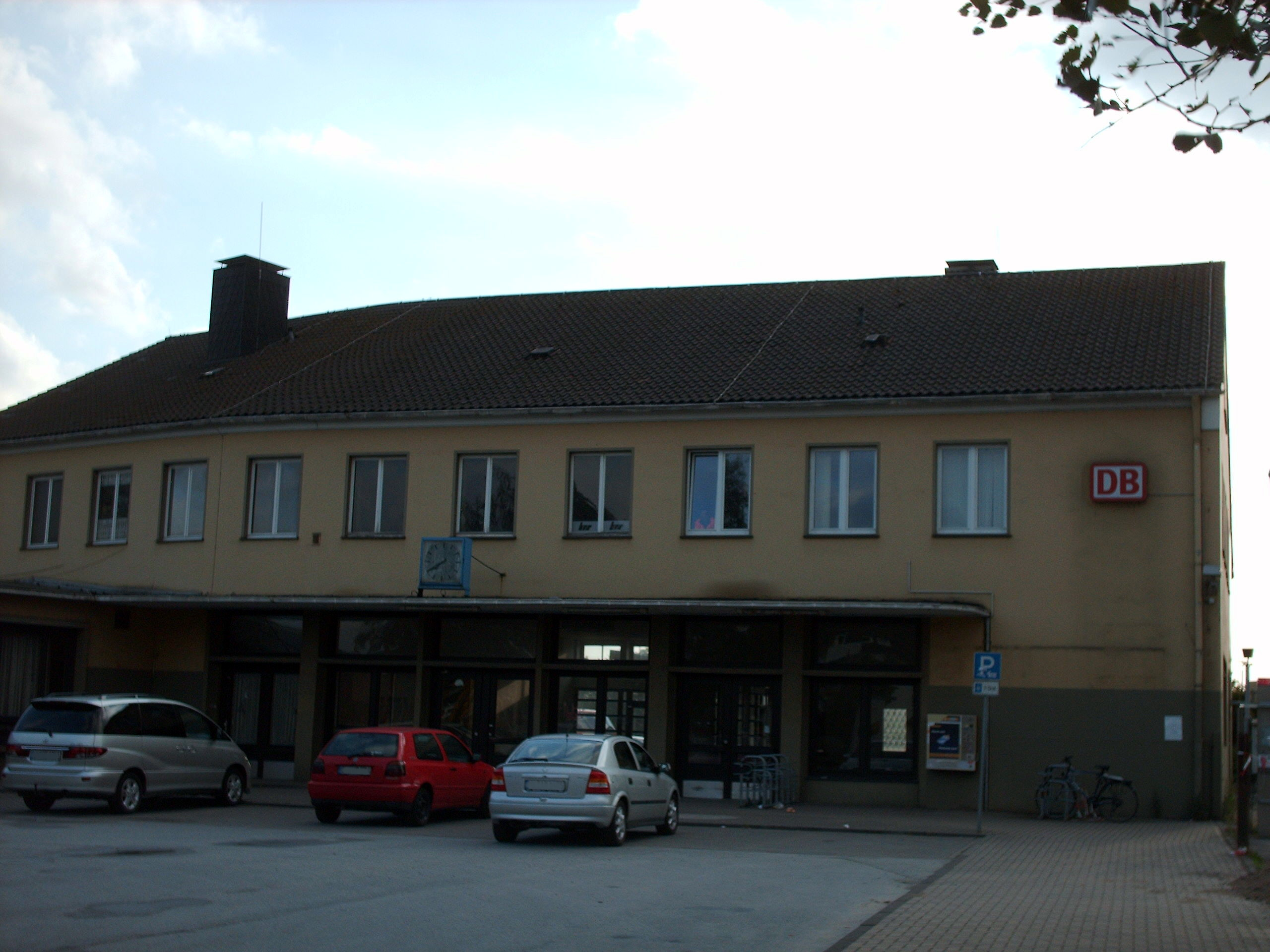 Fröndenberg station, Fröndenberg, Germany check usage